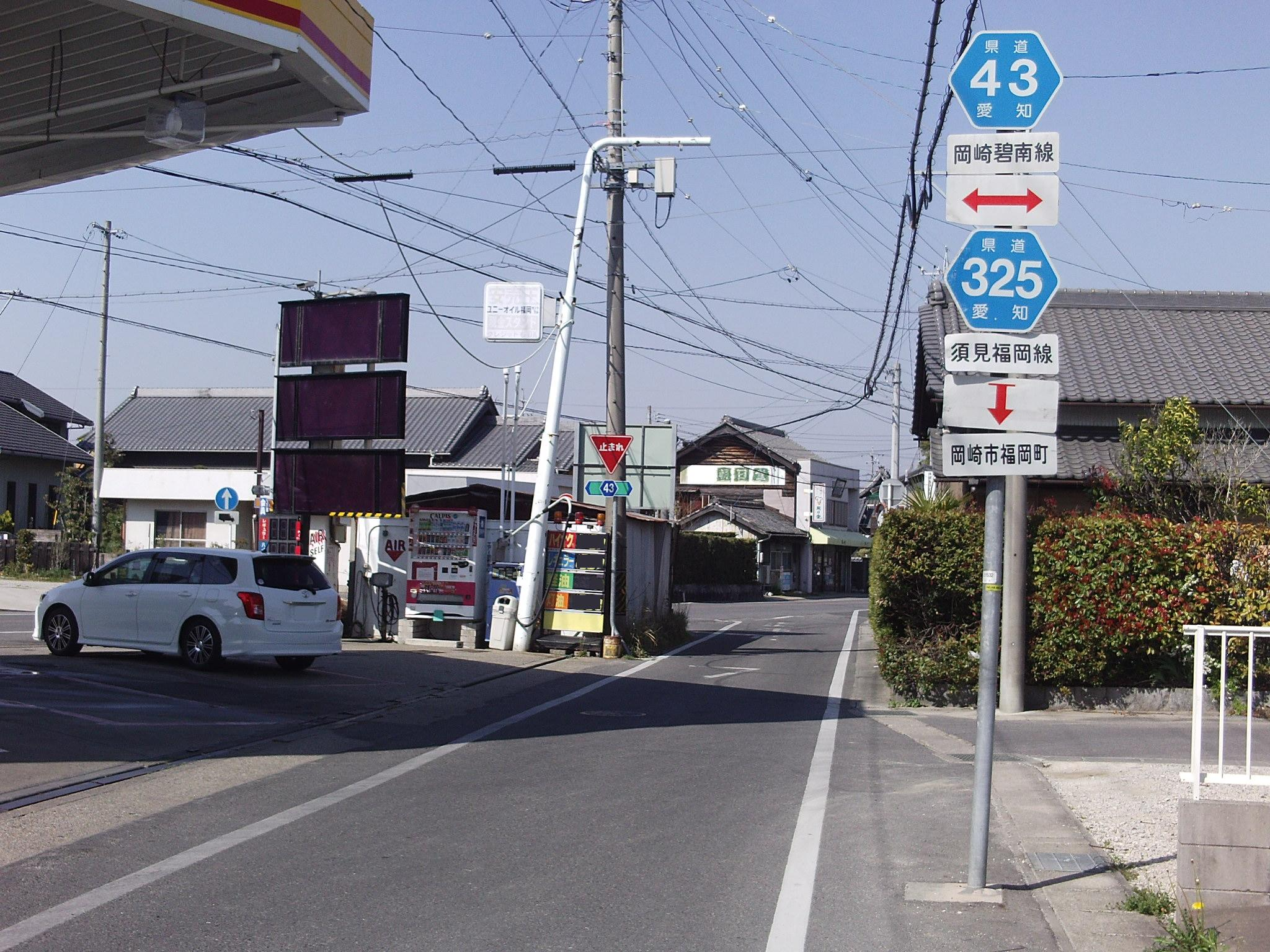 Aichi prefectural road No.325 in Fukuokacho, Okazaki, Aichi.